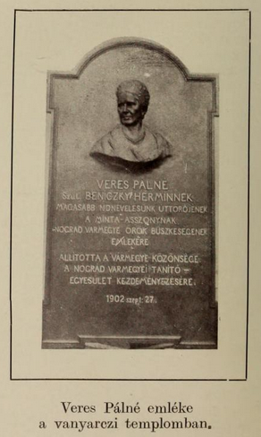 Memorial plate of Veres Pálné in Vanyarc